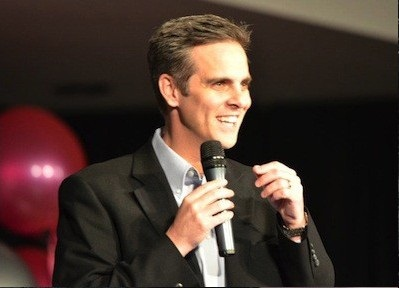 The Photo fo Jason F. Wright